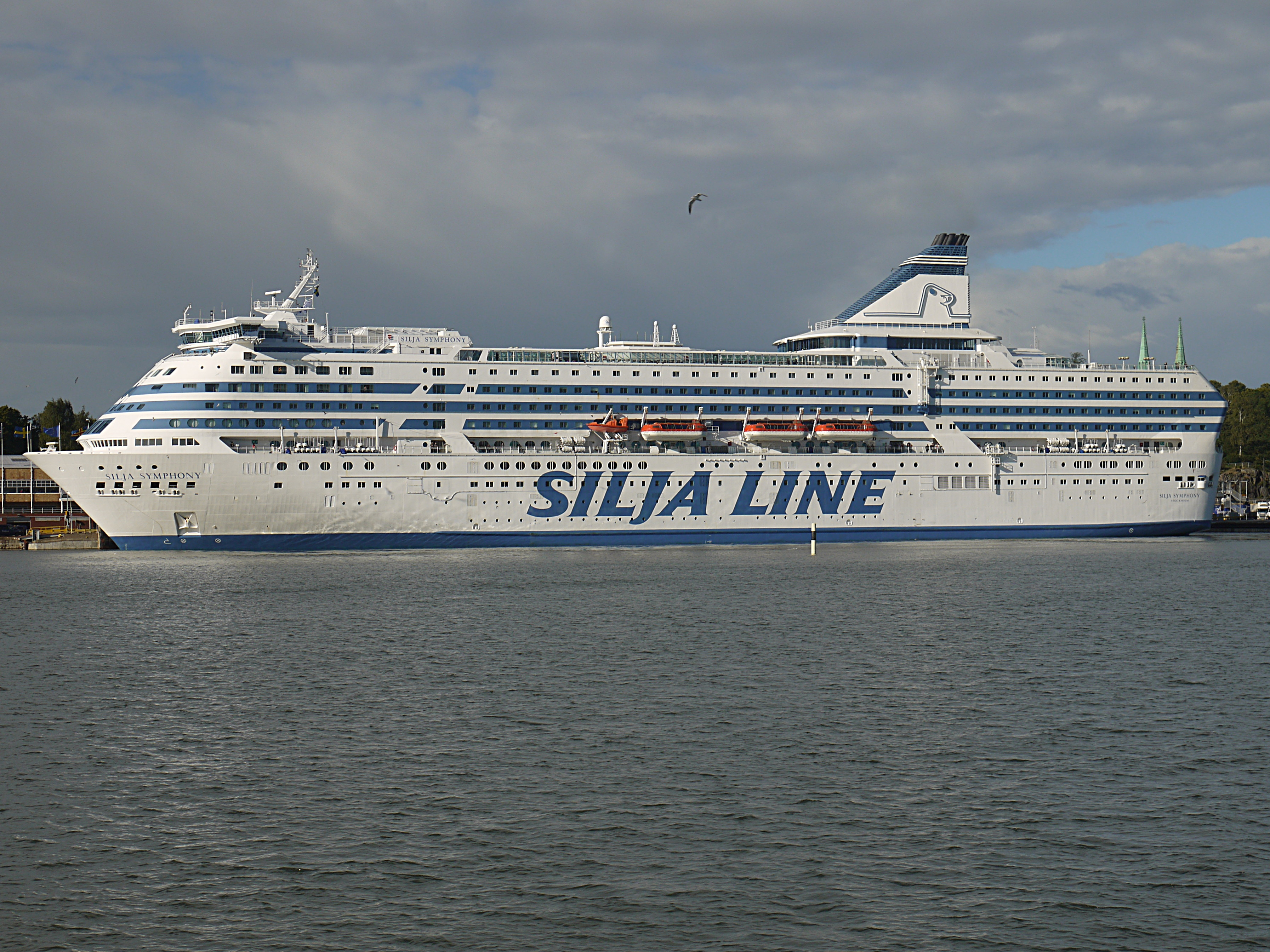 Estonian cruiseferry Silja Symphony.